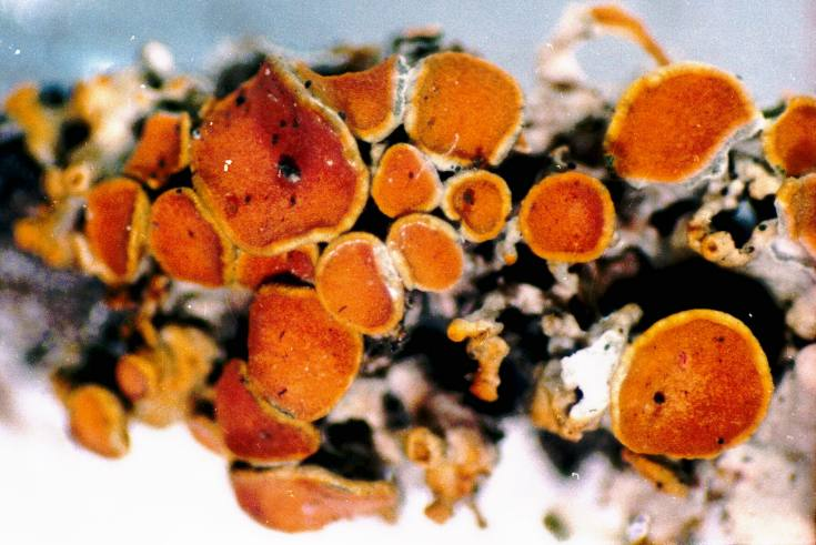 Xanthoria polycarpa (Hoffm.) Th. Fr. ex Rieber, 1891 (photograph of a herbarium specimen taken through a dissecting microscope (x22) showing apothecia with brownish orange disks) Growing on Picea branch in open woods at Bush Bay, near the picnic area ca. 6 miles E of Cedarville on M-134, Mackinac County, Michigan, USA; collected and identified by Richard E. Riefner (No. 81-407, 7 Jul 1981); specimen is now in the Lichen Herbarium of the New York Botanical Garden.